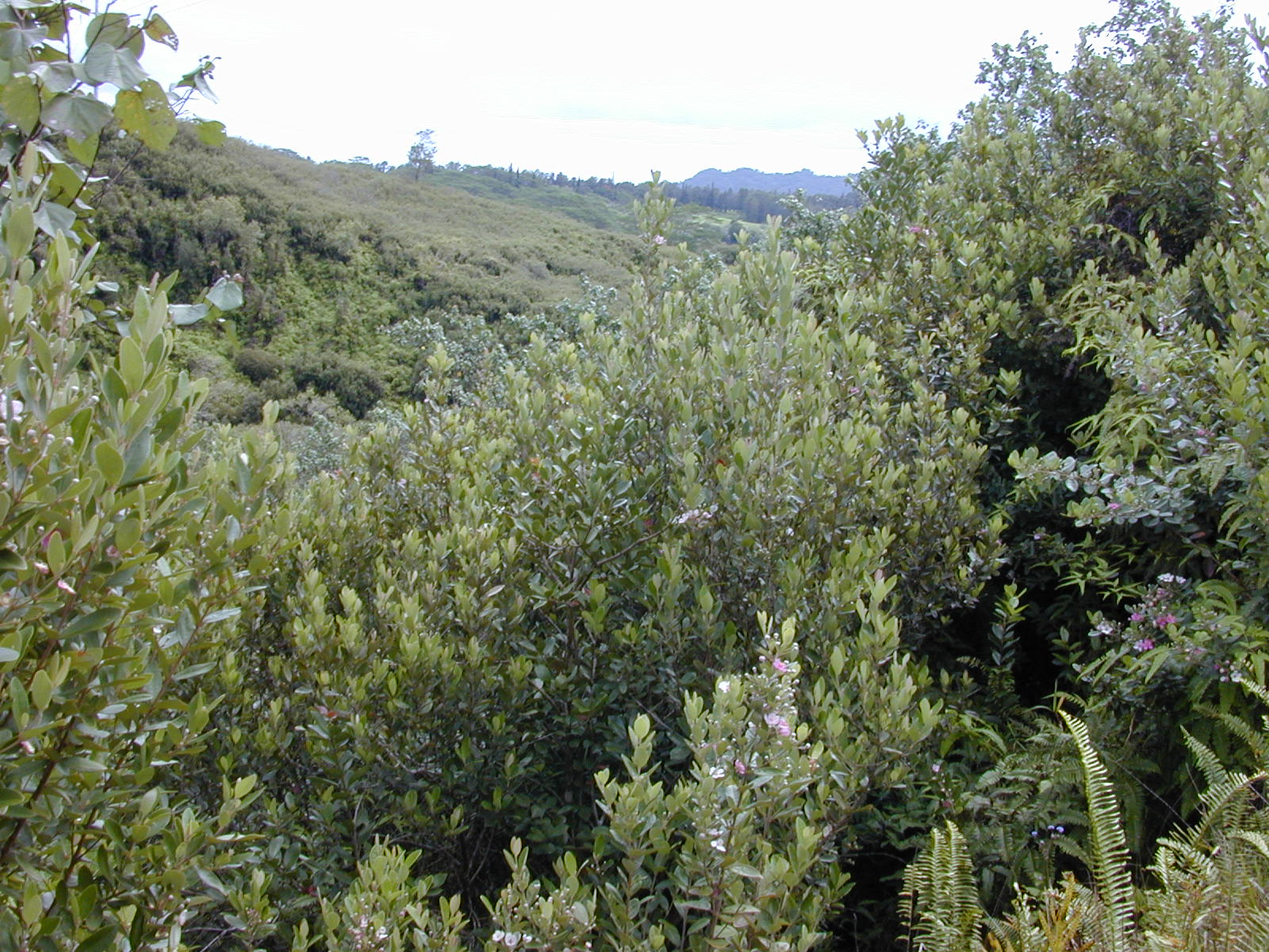 Rhodomyrtus tomentosa (habit). Location: Kauai, Wailua